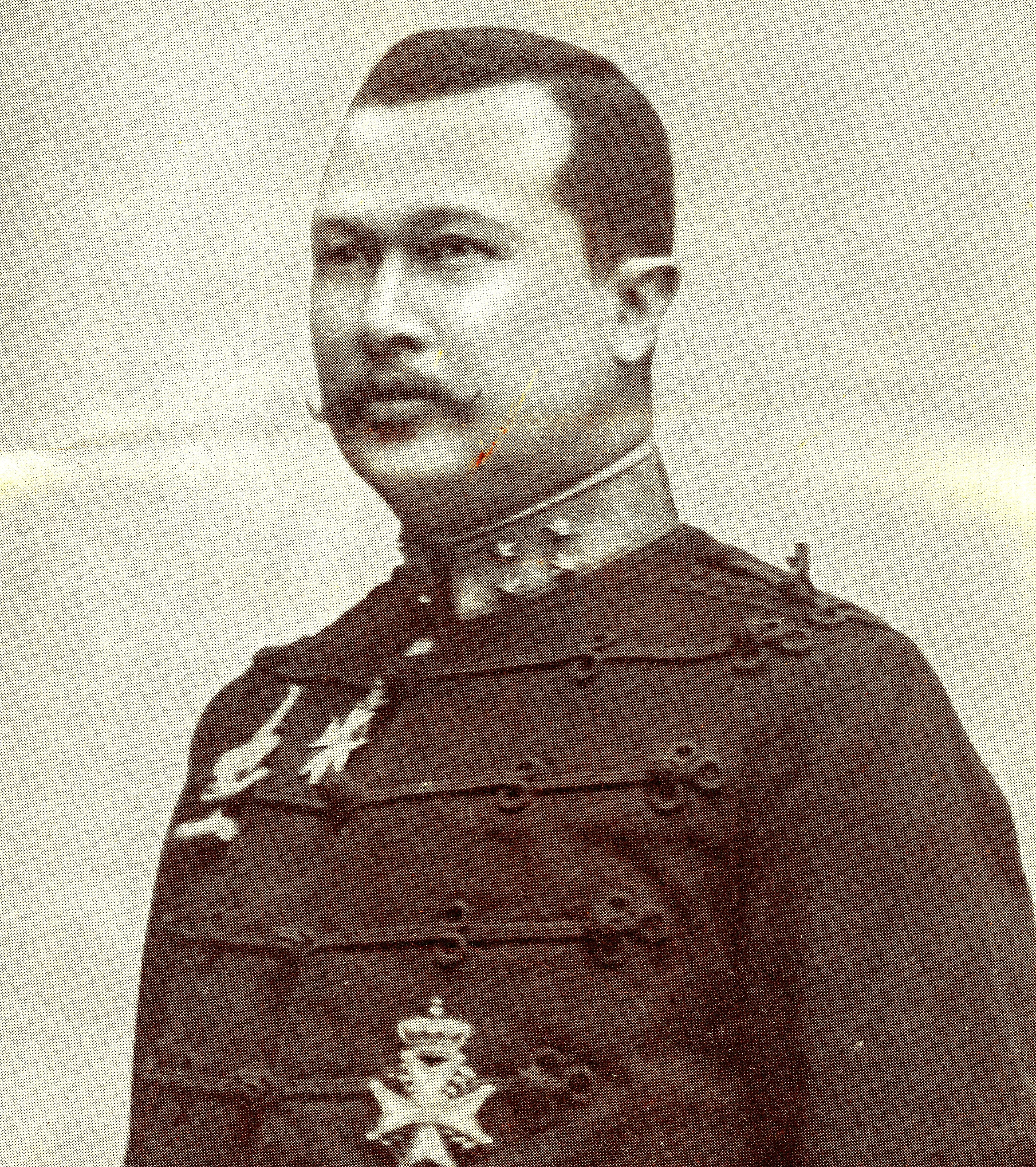 G.C.E. van Dalen